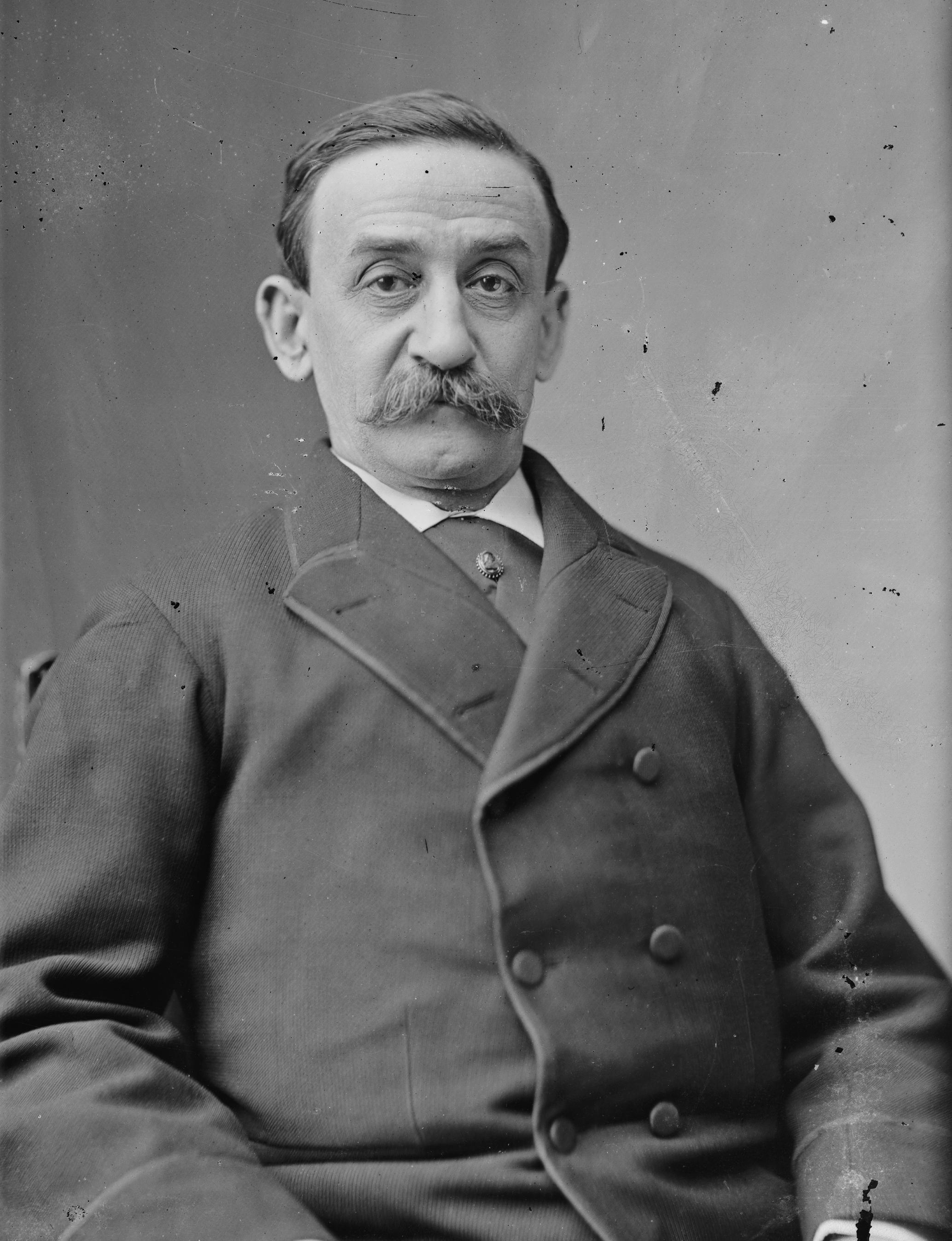 Benjamin F. Jonas. Library of Congress description: "Jonas, Hon. Benjamin Franklin, Senator of Louisiana. Served in the Washington Artillery until 1863".